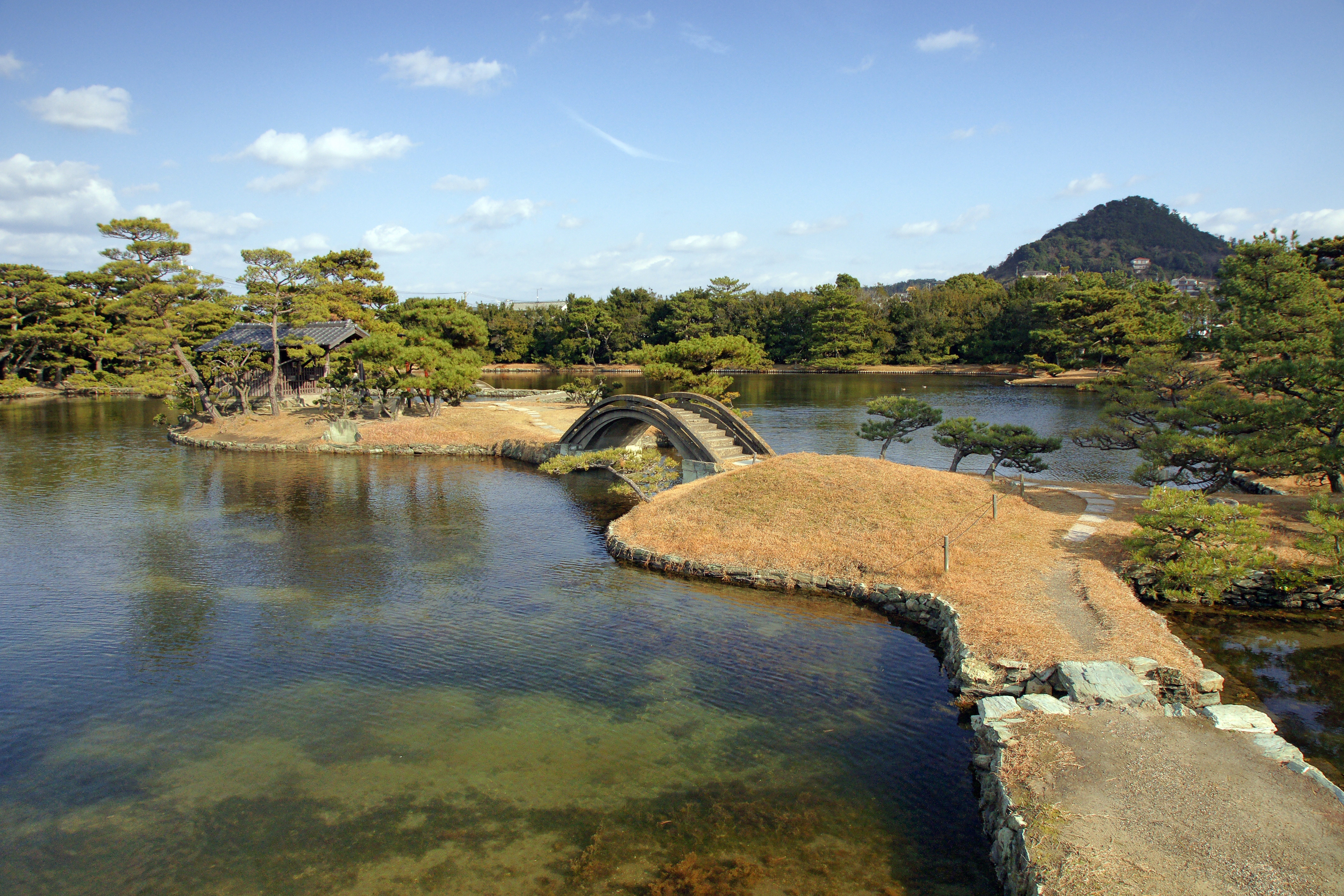 Yosuien, Wakayama, Wakayama prefecture, Japan